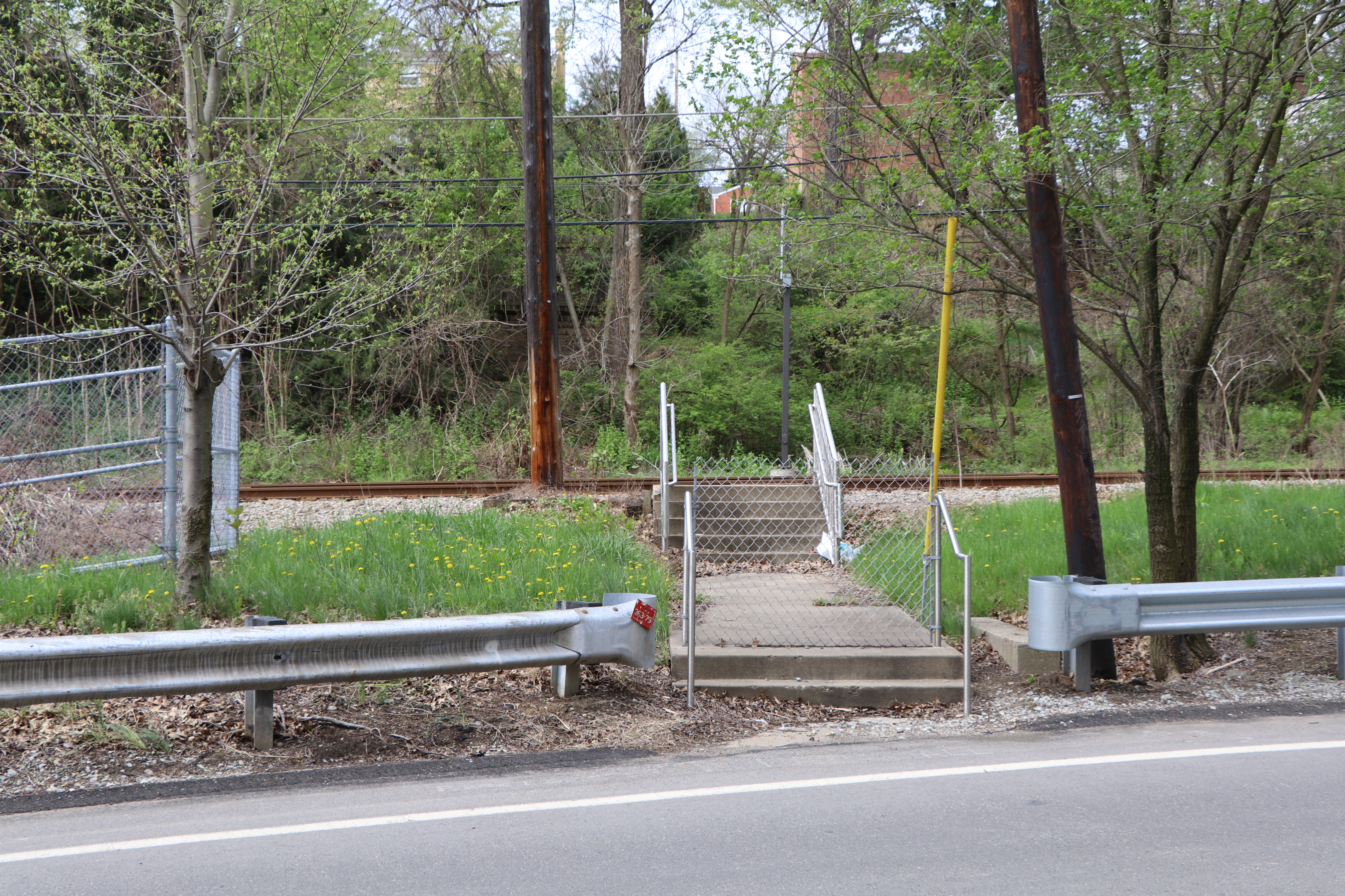 The remains of Latimer station on the Blue Line, Bethel Park, PA in 2017. View looking west at the access to what used to be the inbound platform.